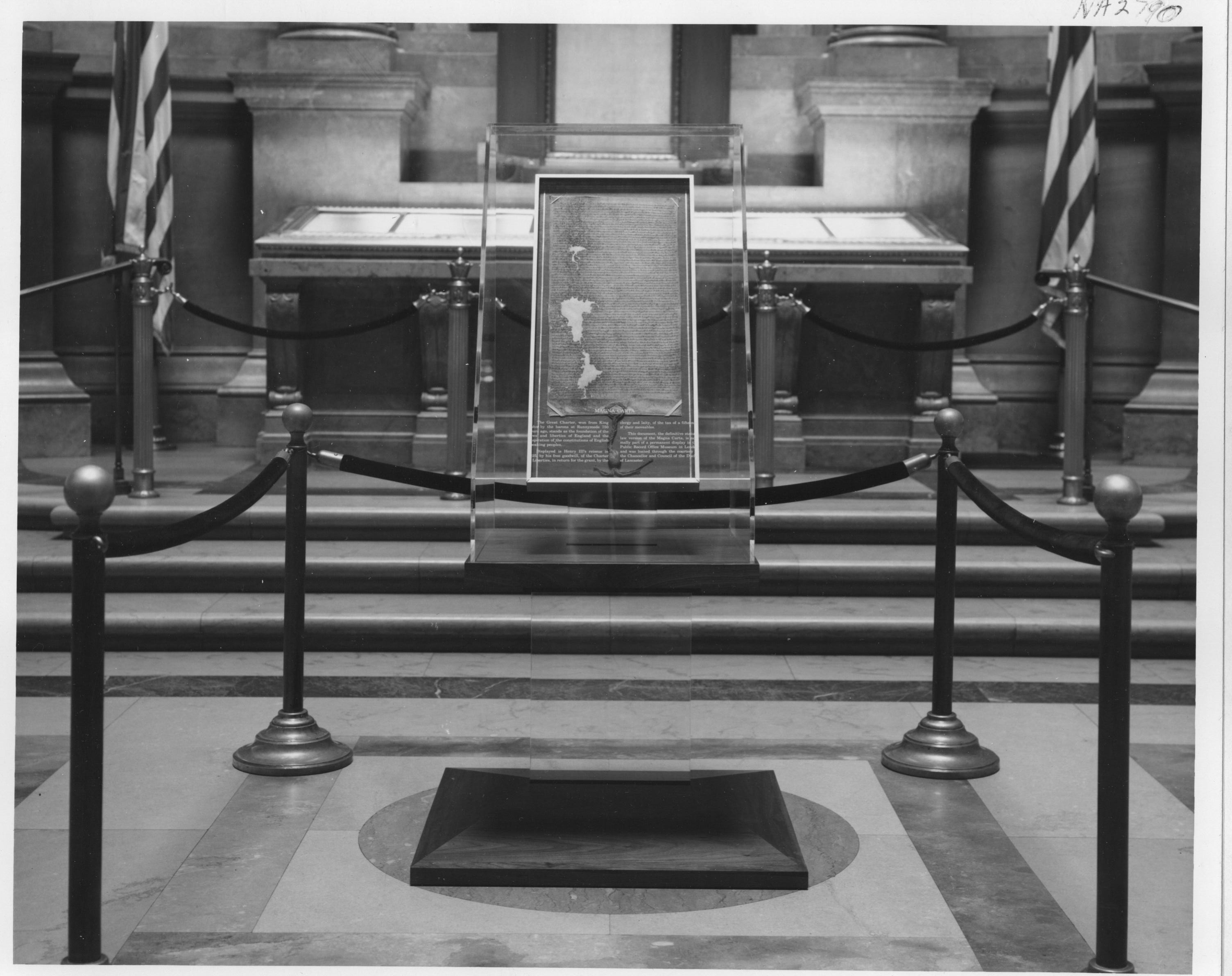 Original Caption: Magna Carta, Reissue of 1225, in Case in National Archives Rotunda, 1965 U.S. National Archives’ Local Identifier: 64-NA-2790 Subjects: United States National Archives Persistent URL: Repository: Still Picture Records Section, Special Media Archives Services Division (NWCS-S), National Archives at College Park, 8601 Adelphi Road, College Park, MD, 20740-6001. U.S. National Archives’ Local Identifier: 64-NA-2790 Access Restrictions: Unrestricted Use Restrictions: Unrestricted